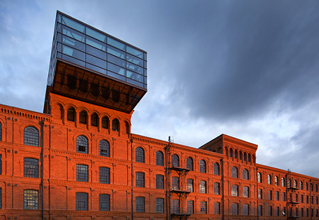 Photograph by Aleš Jungmann